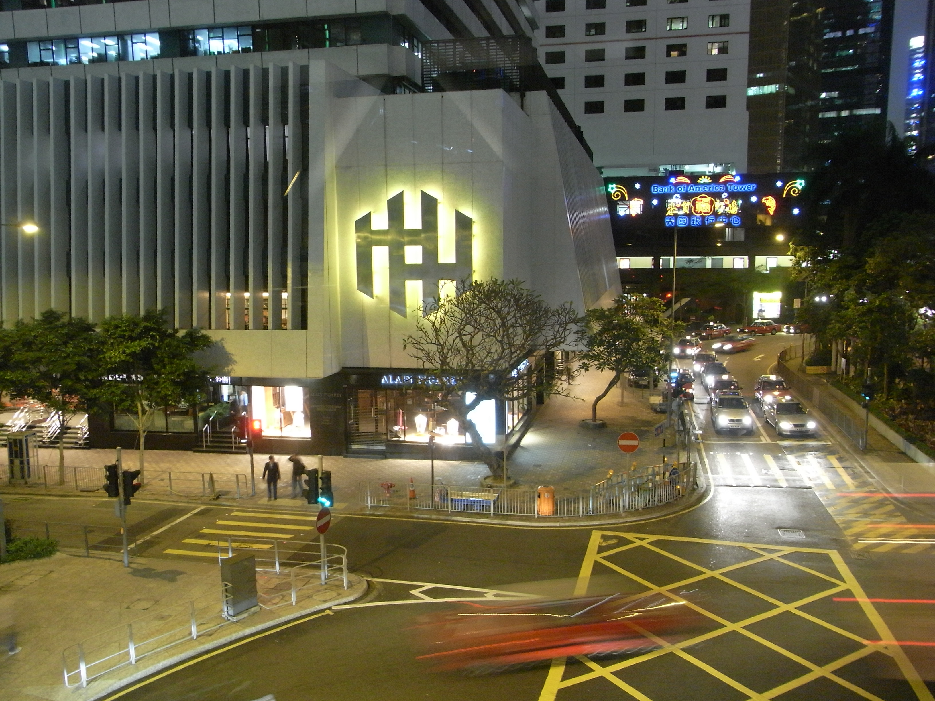 2010年2月zh:香港金鐘